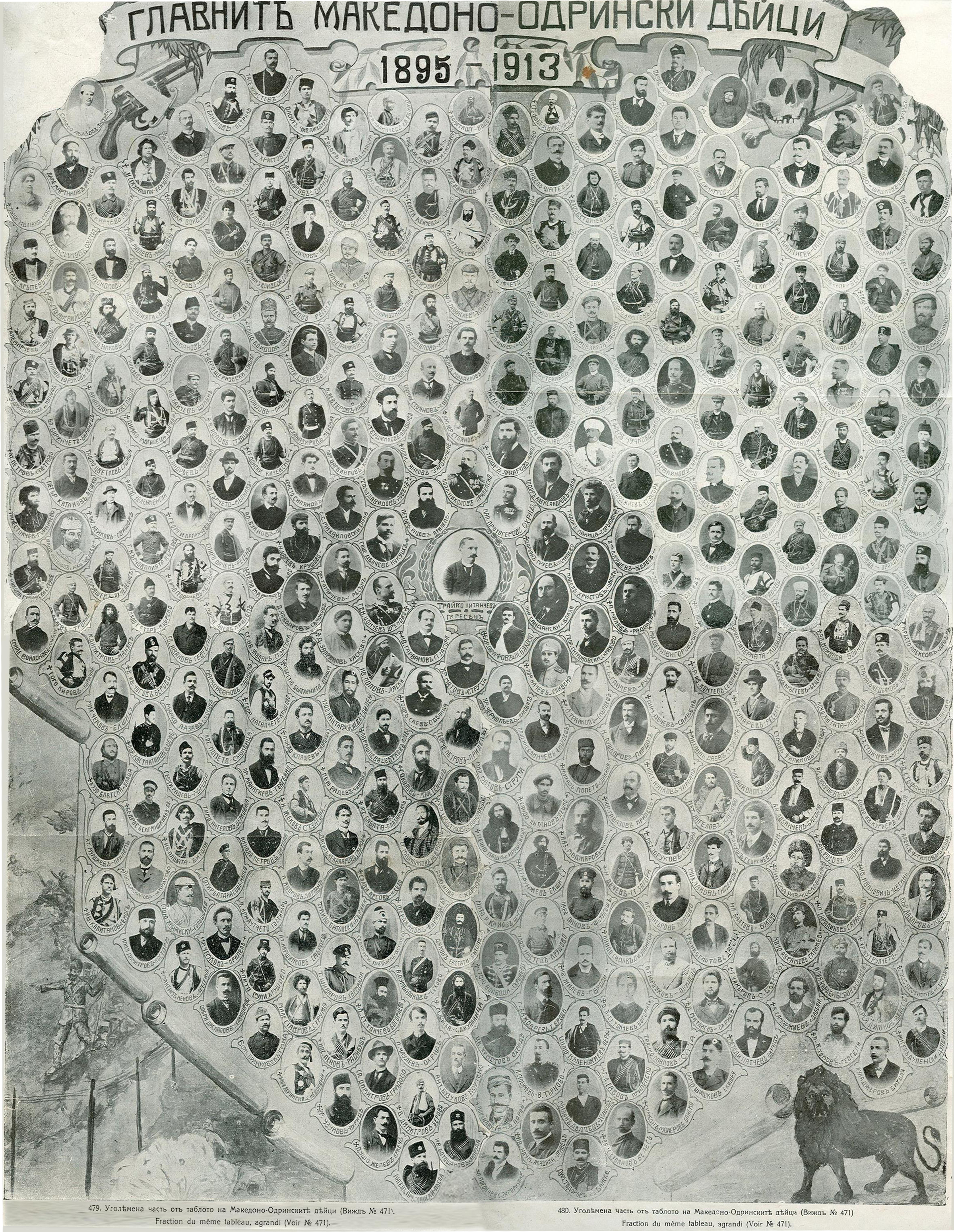 poster with pictures from beggining of 20 century from Ilinden Organization